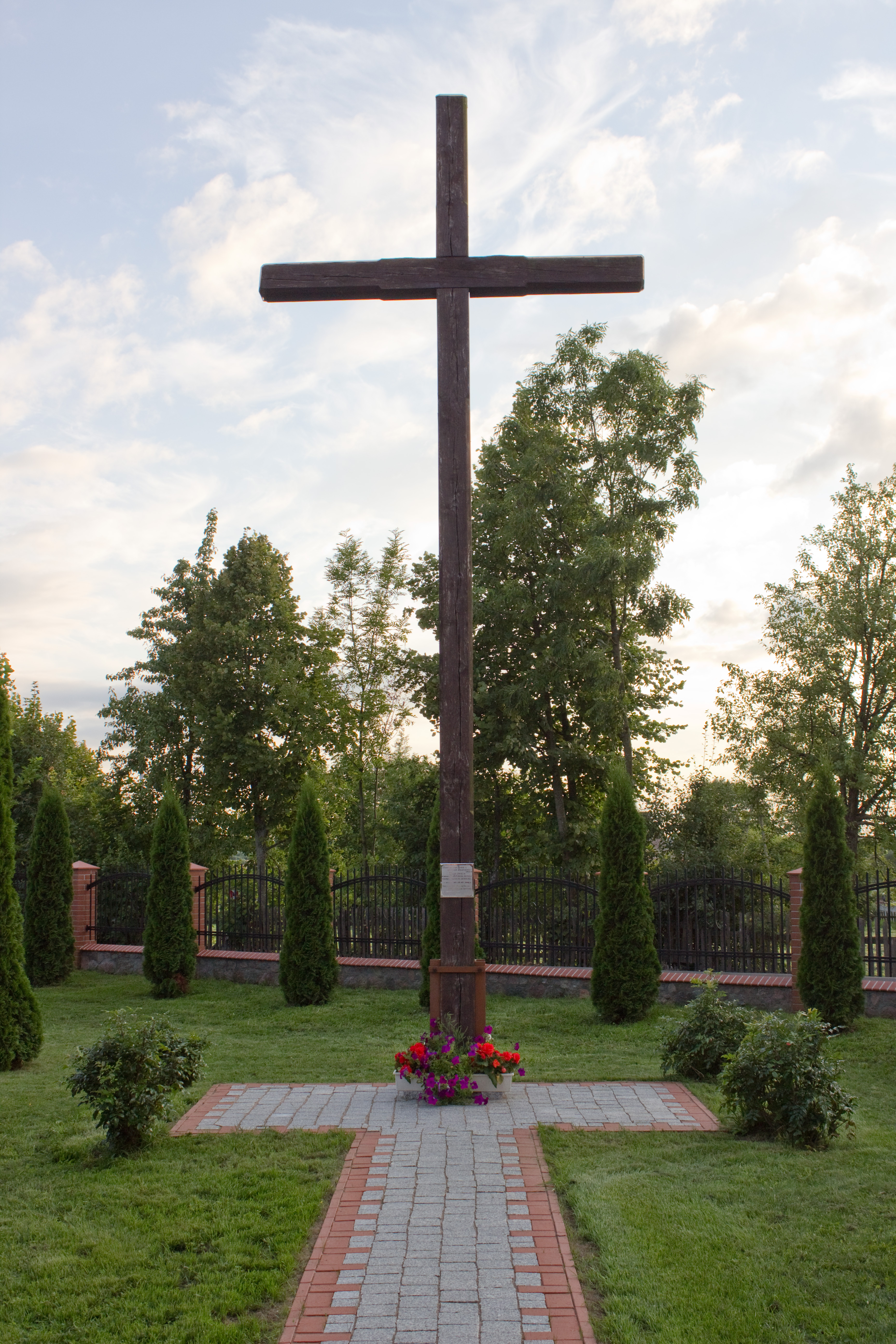 Wayside cross, Wiśniowo Ełckie, gmina Prostki, powiat ełcki, Warmian-Masurian Voivodeship